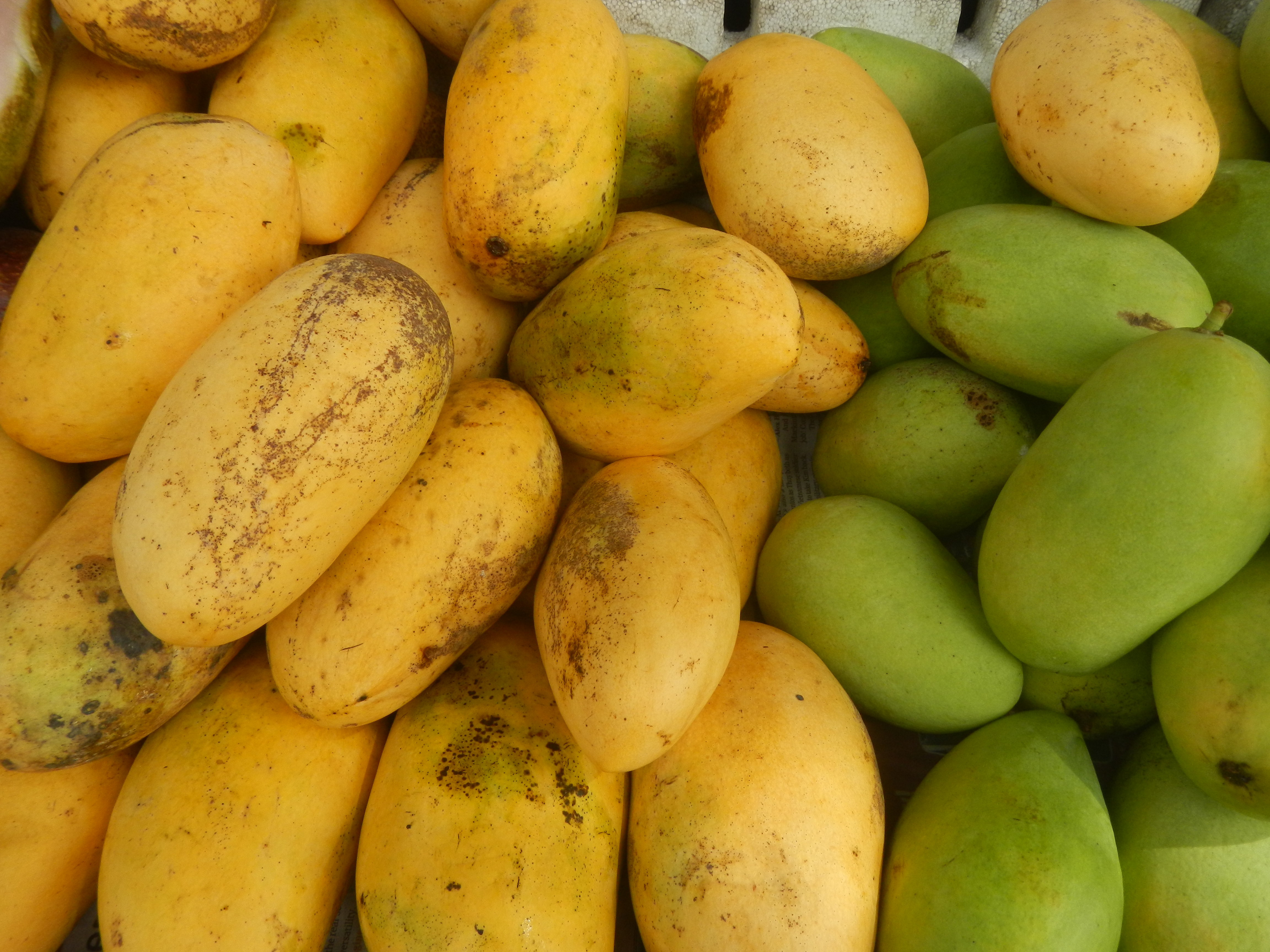 Pitsi-Pitsi Dunkin Donuts Carabao mango Santol Rambutan Kalabasa with common houseflies Coconut fruits with common houseflies photos taken in Barangay Poblacion 14°57'17"N 120°54'2"E Baliuag, Bulacan, and in Barangay Barangay Cutcot 14°54'19"N 120°51'52"E, Pulilan, Bulacan (Note: Judge Florentino Floro, the owner, to repeat, Donor Florentino Floro of all these photos hereby donate gratuitously, freely and unconditionally all these photos to and for Wikimedia Commons, exclusively, for public use of the public domain, and again without any condition whatsoever).